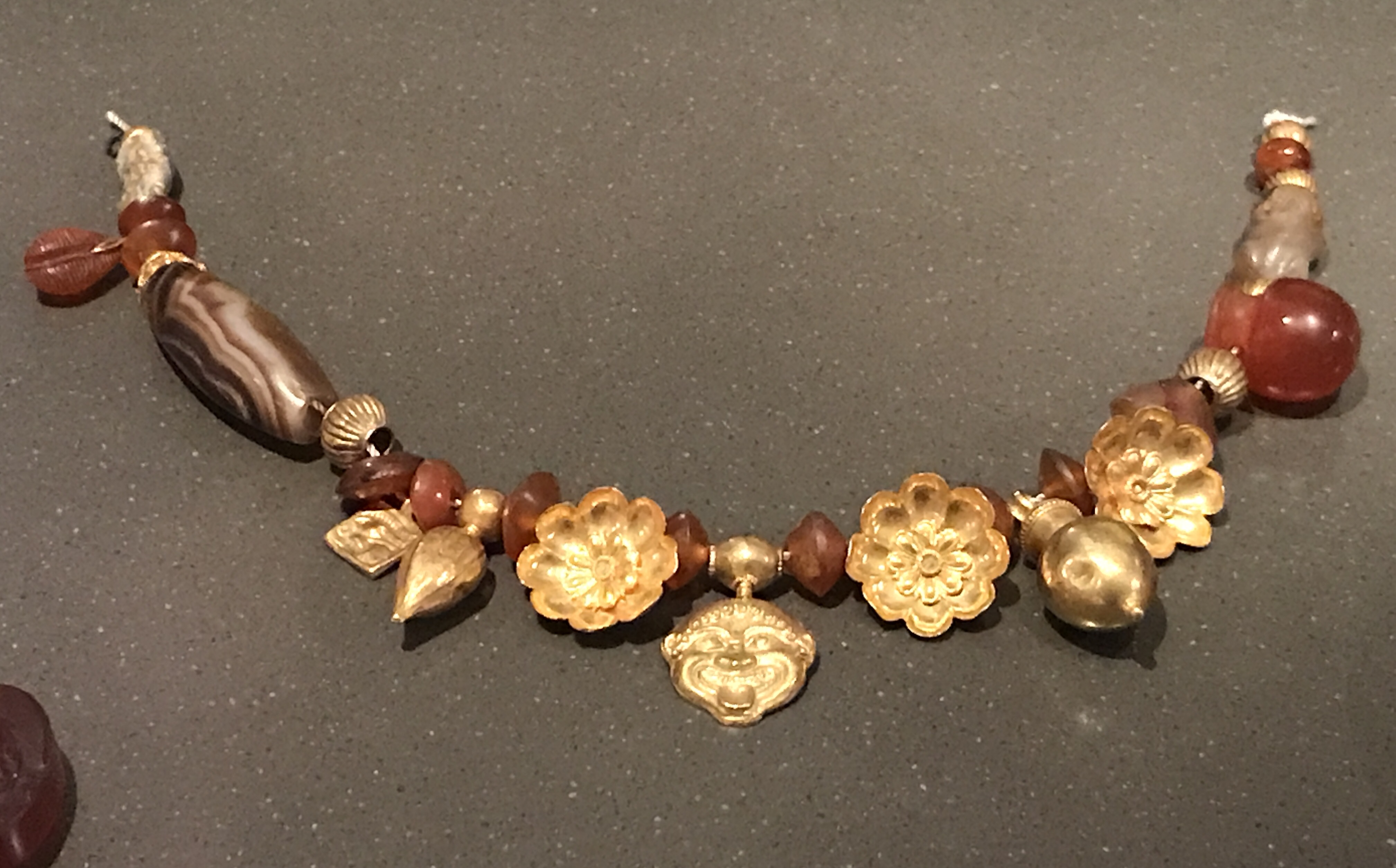 The necklace consists of 30 parts threaded in modern times and originally from different necklaces.[1]